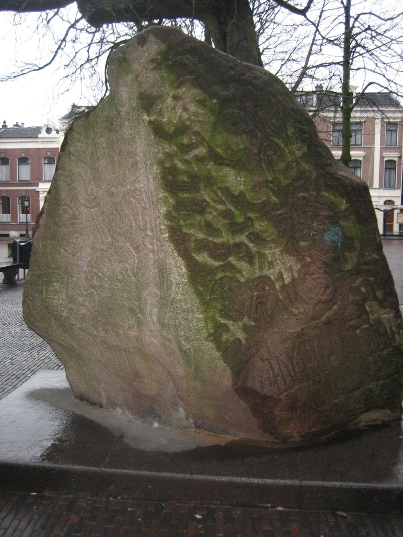 this replica of the jelling rune stone of harald bluetooth in denmark can be found next to the dome church of utrecht. the stone has 3 sides, and on on of the back sides (on the right in this picture) one of the oldest scandinavian pictures of christ can be seen